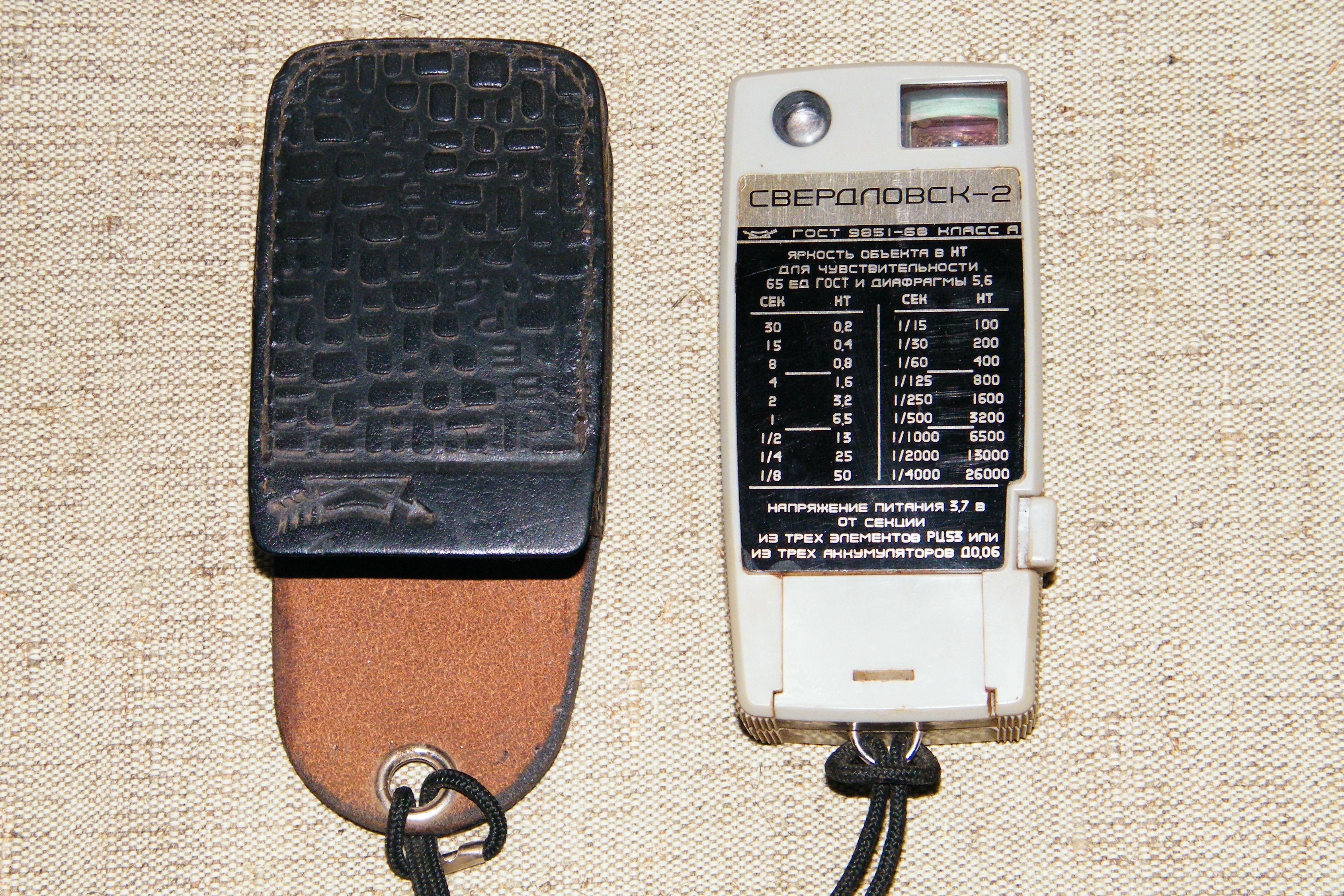 Свердловск-2 экспонометр